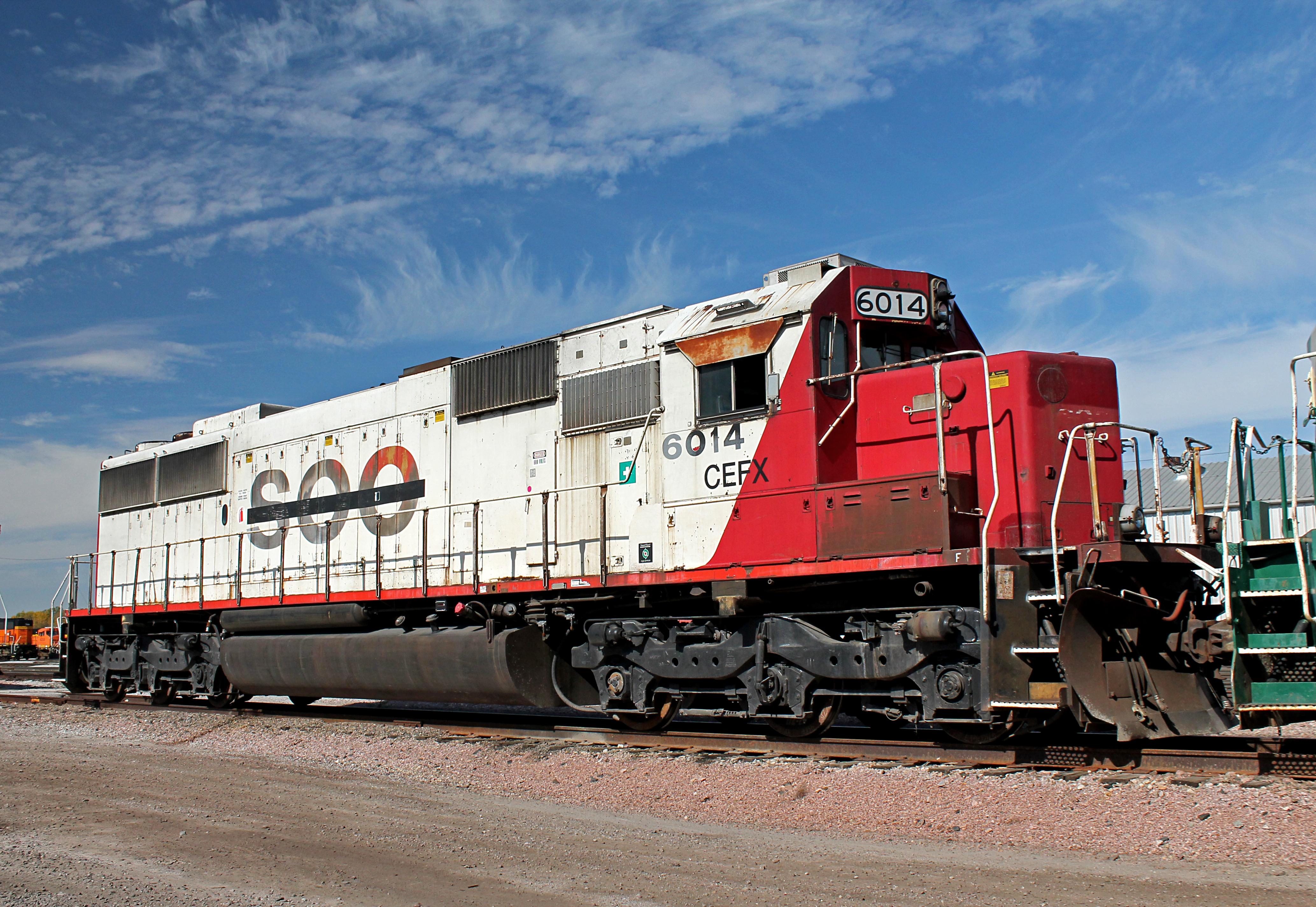 Ex-SOO SD60 no. 6014, now owned by Citirail (CEFX), at Lincoln, Nebraska in October 2014.